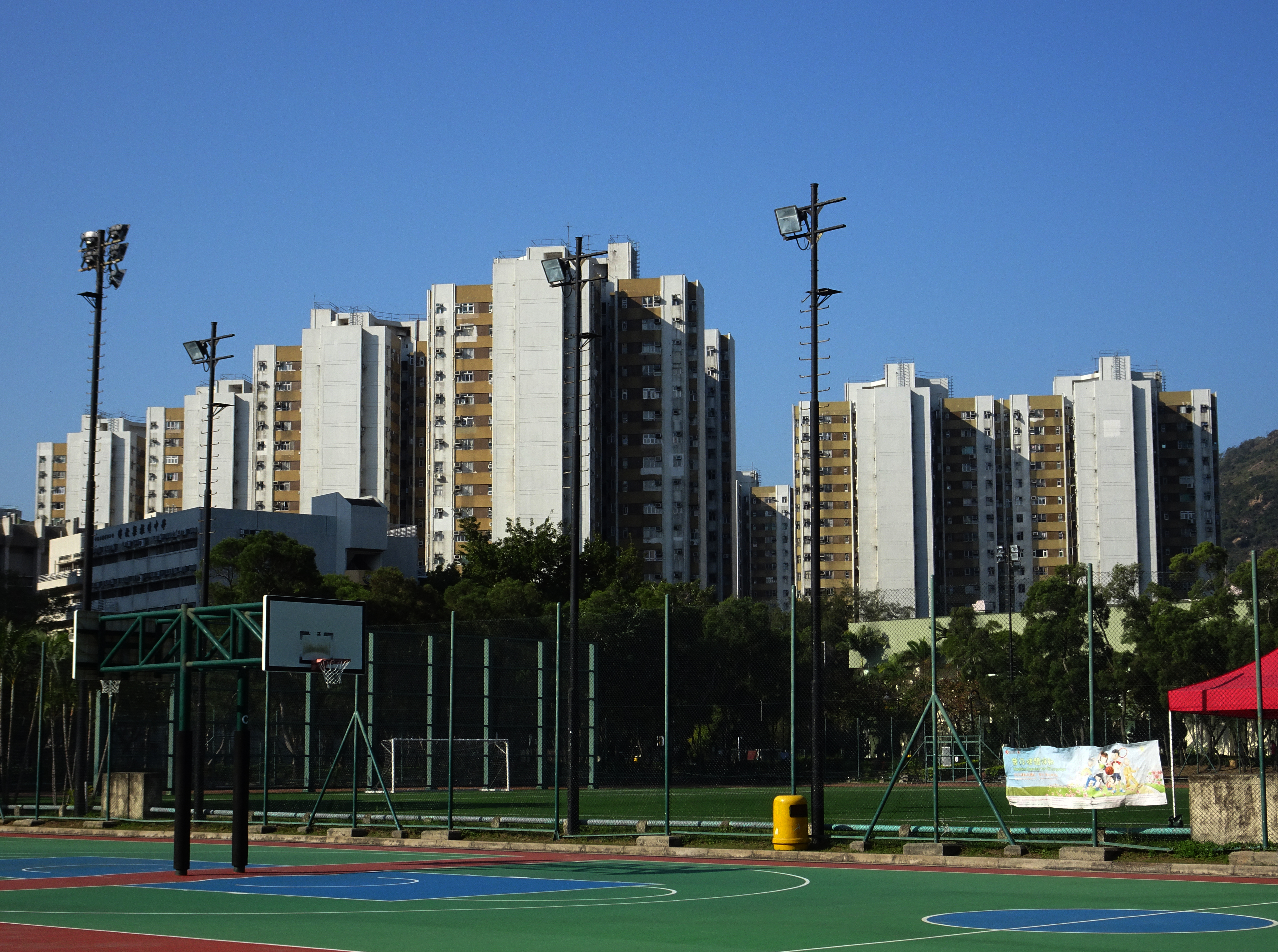 Siu Shan Court in Tuen Mun, Hong Kong.